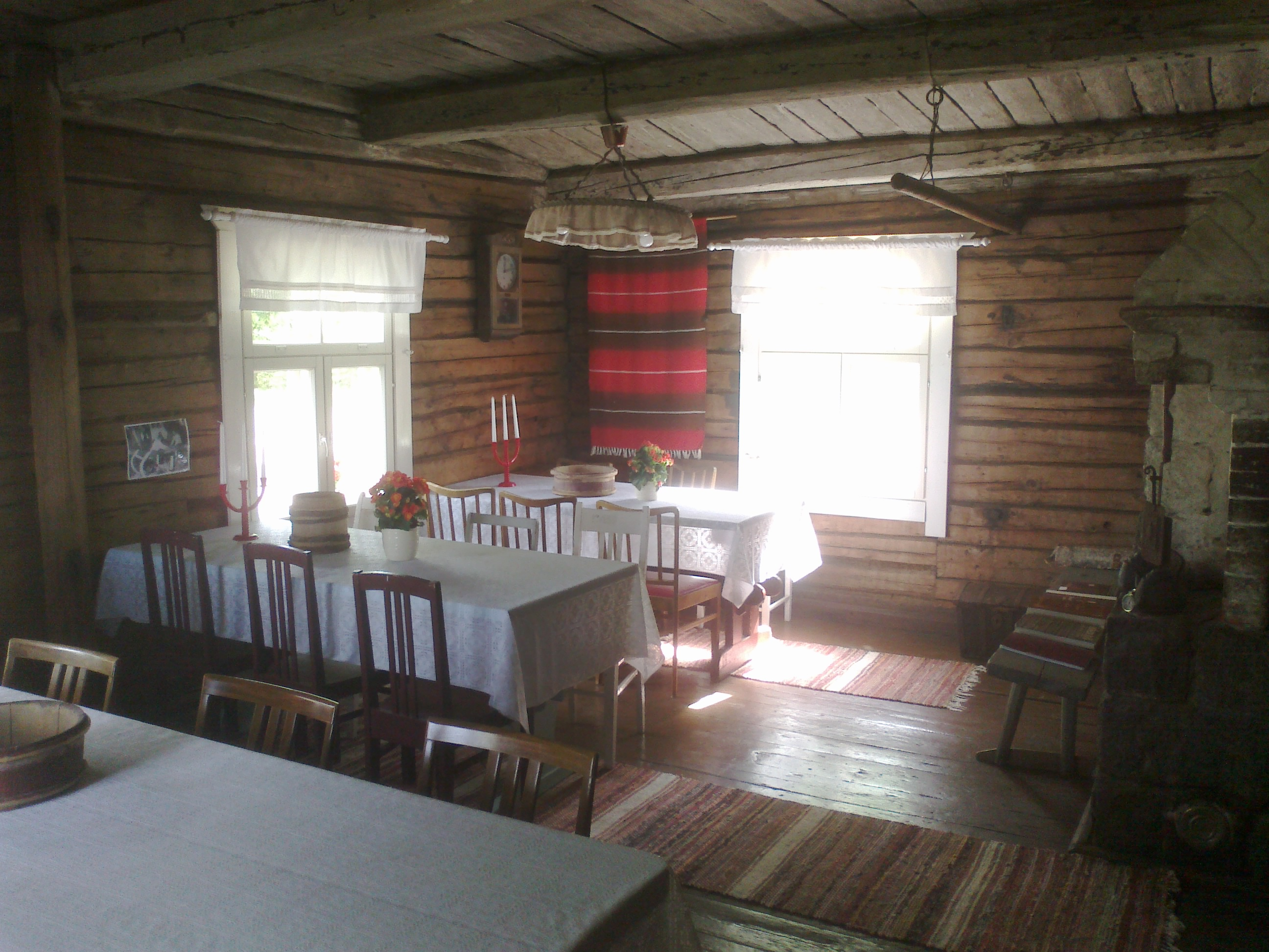 The oldest part of the Kalapuro House is the main room from the 1800's.